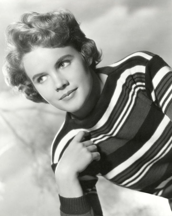 Press photo of Diane Varsi